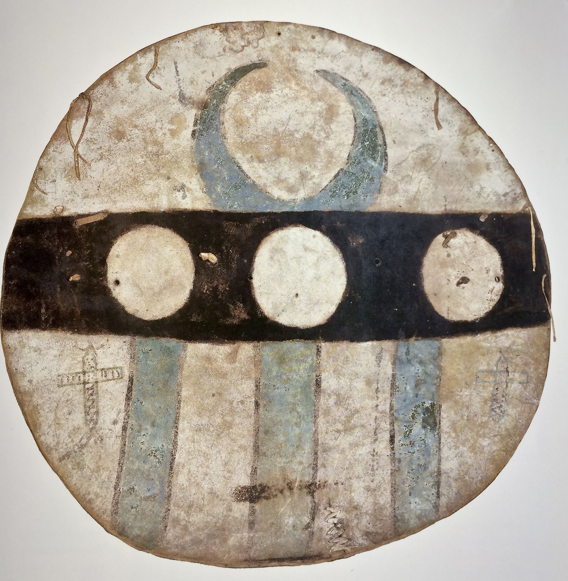 Heavy rawhide, 22in.56 cm. diameter. Design was used almost exclusively at Jemez. From photo at p. 191 of Brasser's book.